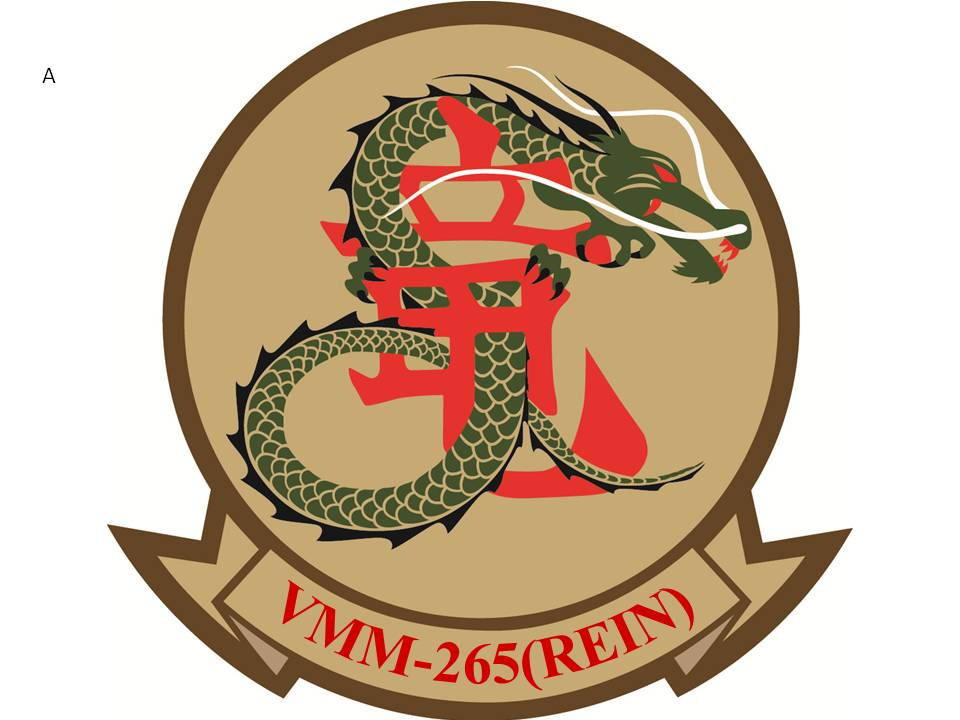 This is the squadron logo for VMM-265 - an MV-22 Osprey squadron in the United States Marine Corps